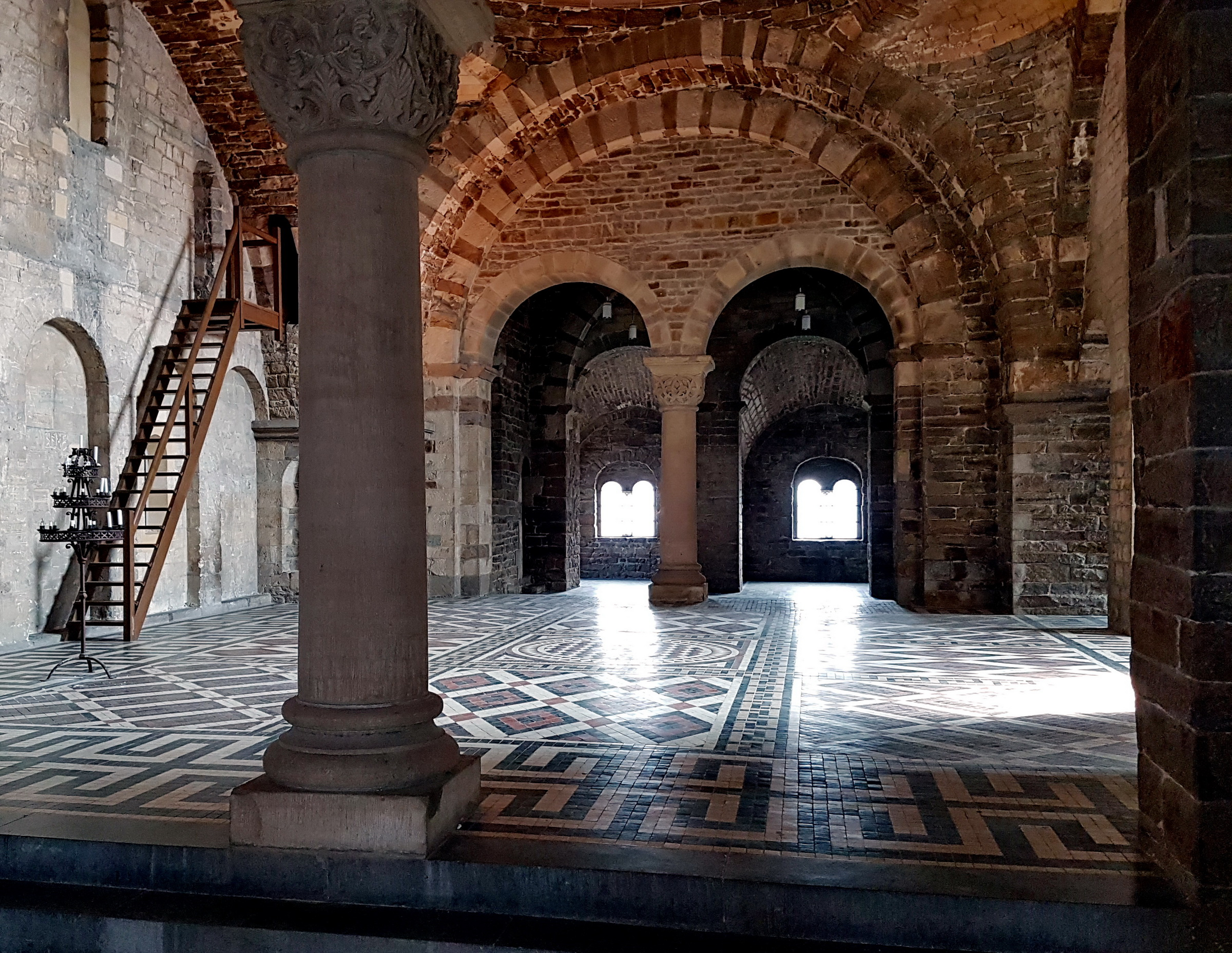 View of the 12th-century Emperor's Hall (Keizerzaal) in the Westwork of the Basilica of Saint Servatius in Maastricht, the Netherland. The tiled floor was designed by the architect Pierre Cuypers in the late 19th century.